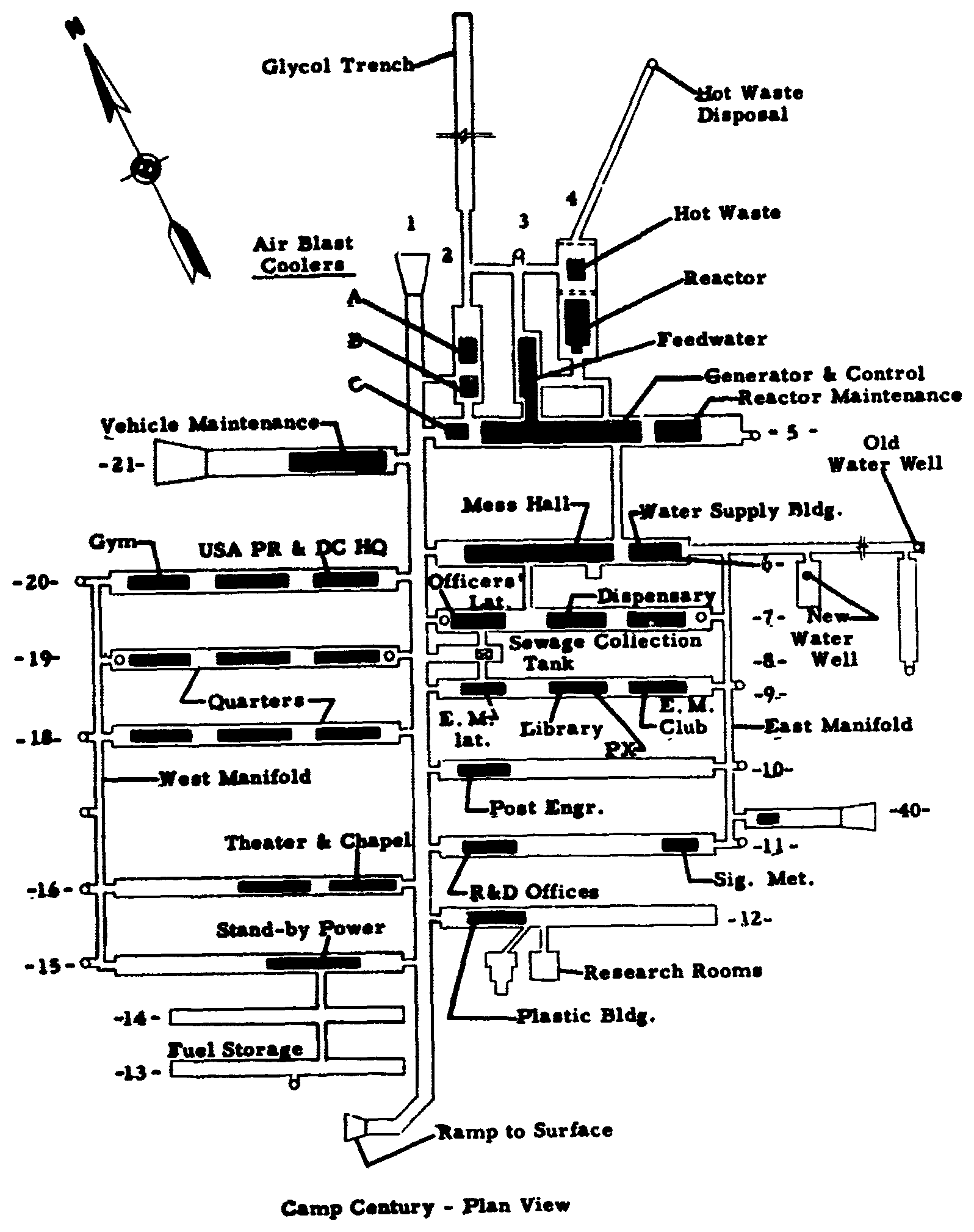 Layout plan of Camp Century